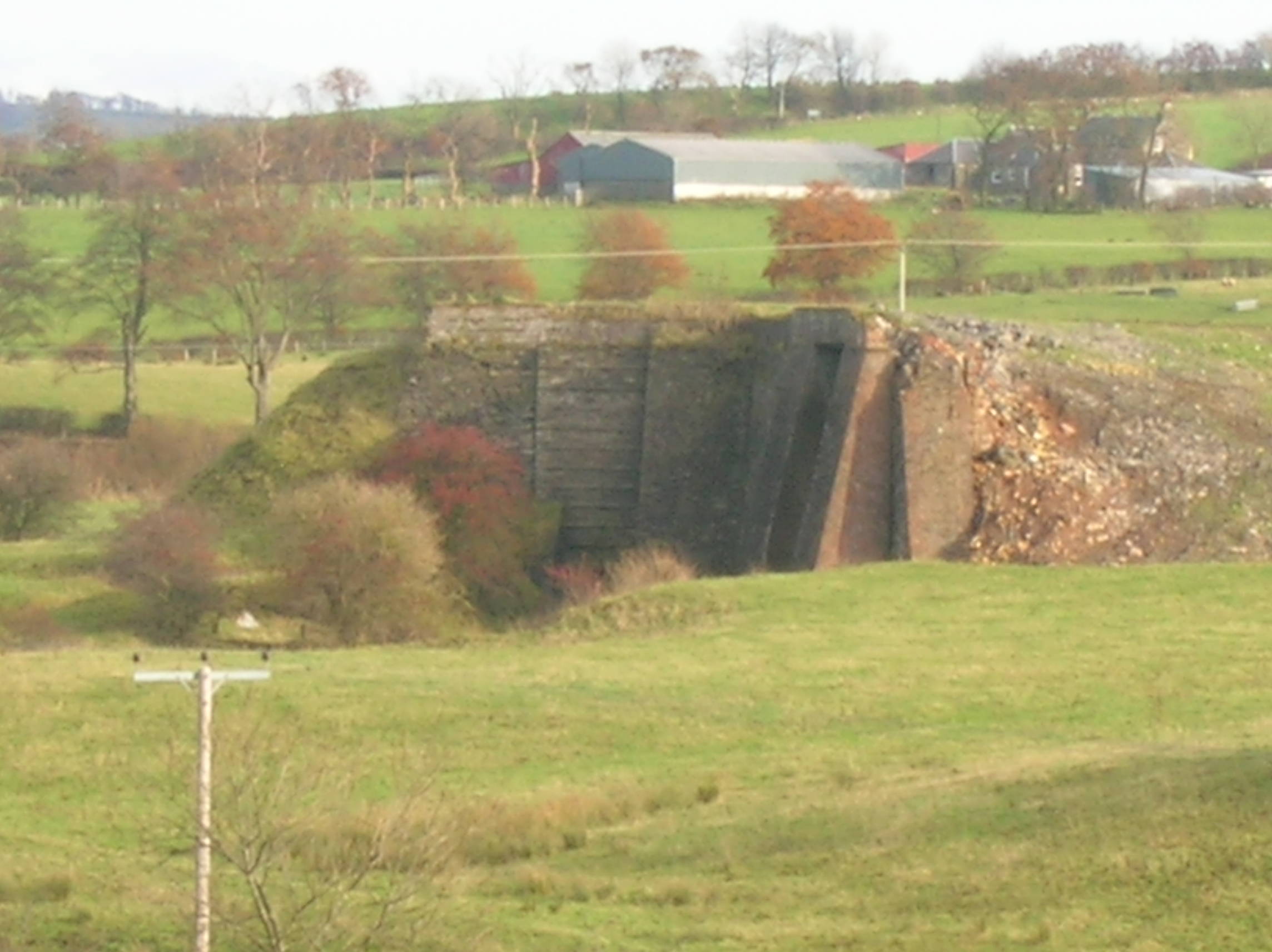 The old Nettlehurst limekiln in 2008